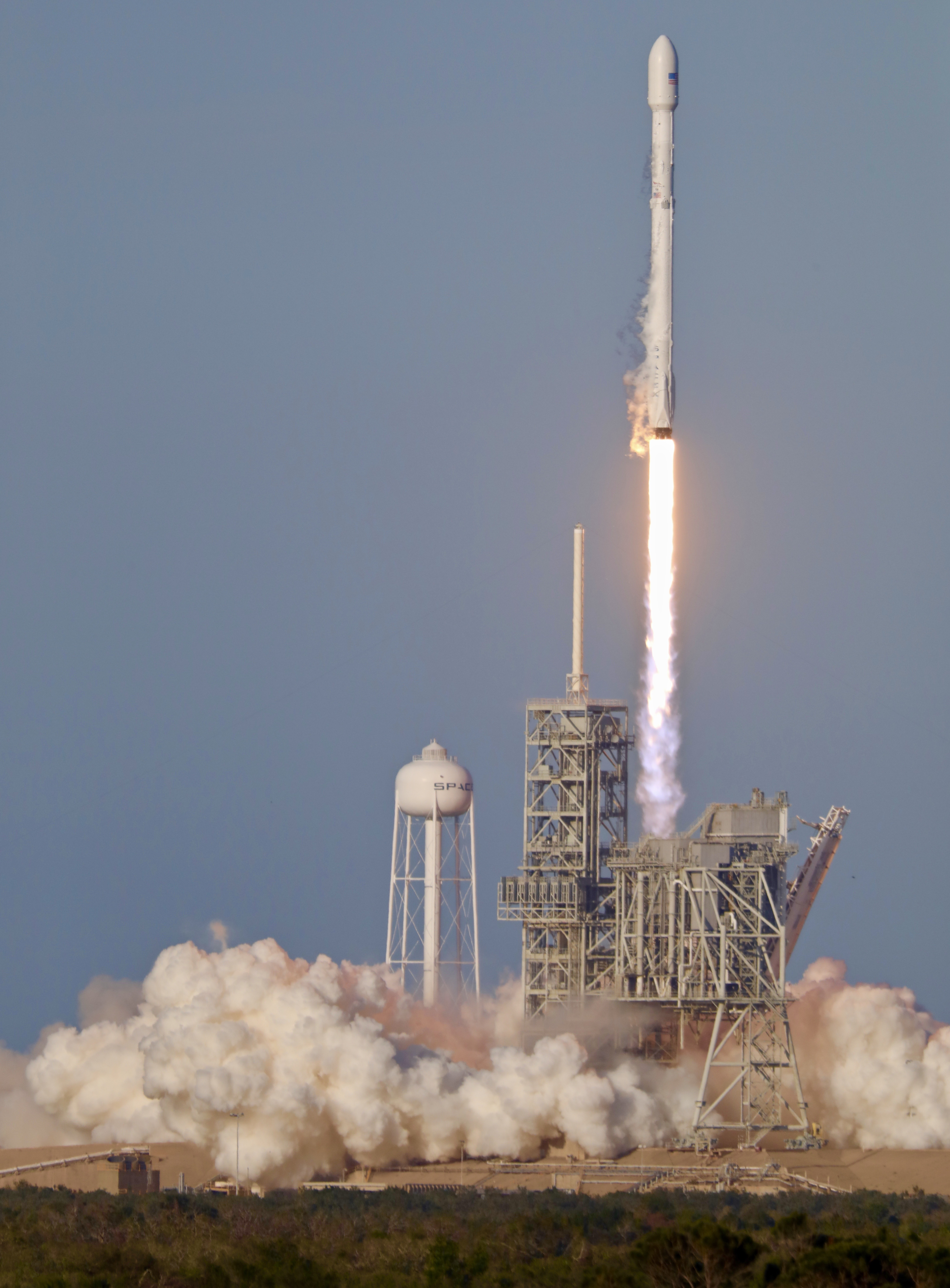 3 of 3 So incredibly proud of SpaceX.